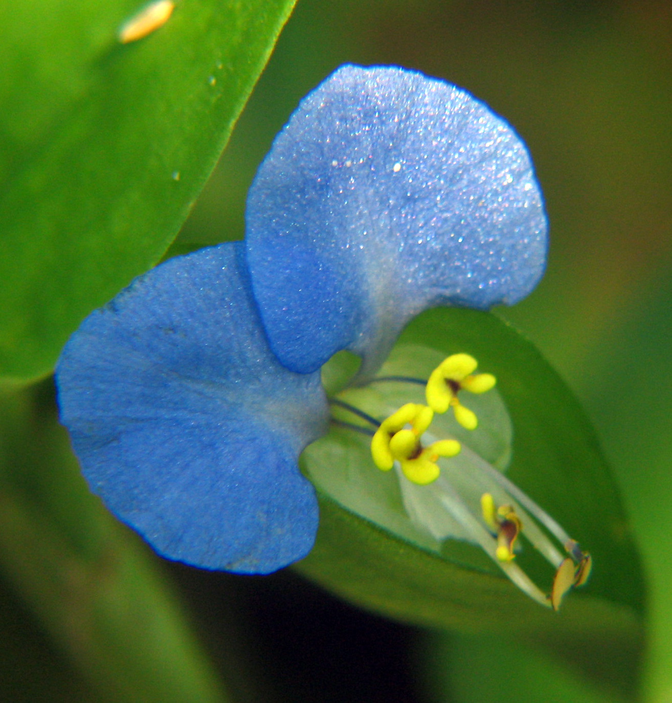 taken by me in Argeş County, Romania (Commelina communis)